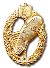 Balloon Observer's Badge (German:Ballonbeobachterabzeichen) of the military of the Third Reich